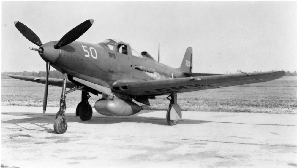 PictionID:40971755 - Title:Airacobra Bell P-39D - Catalog:15_002687 - Filename:15_002687.tif - Image from the Charles Daniels Photo Collection album "US Army Aircraft."----PLEASE TAG this image with any information you know about it, so that we can permanently store this data with the original image file in our Digital Asset Management System.----SOURCE INSTITUTION: San Diego Air and Space Museum Archive